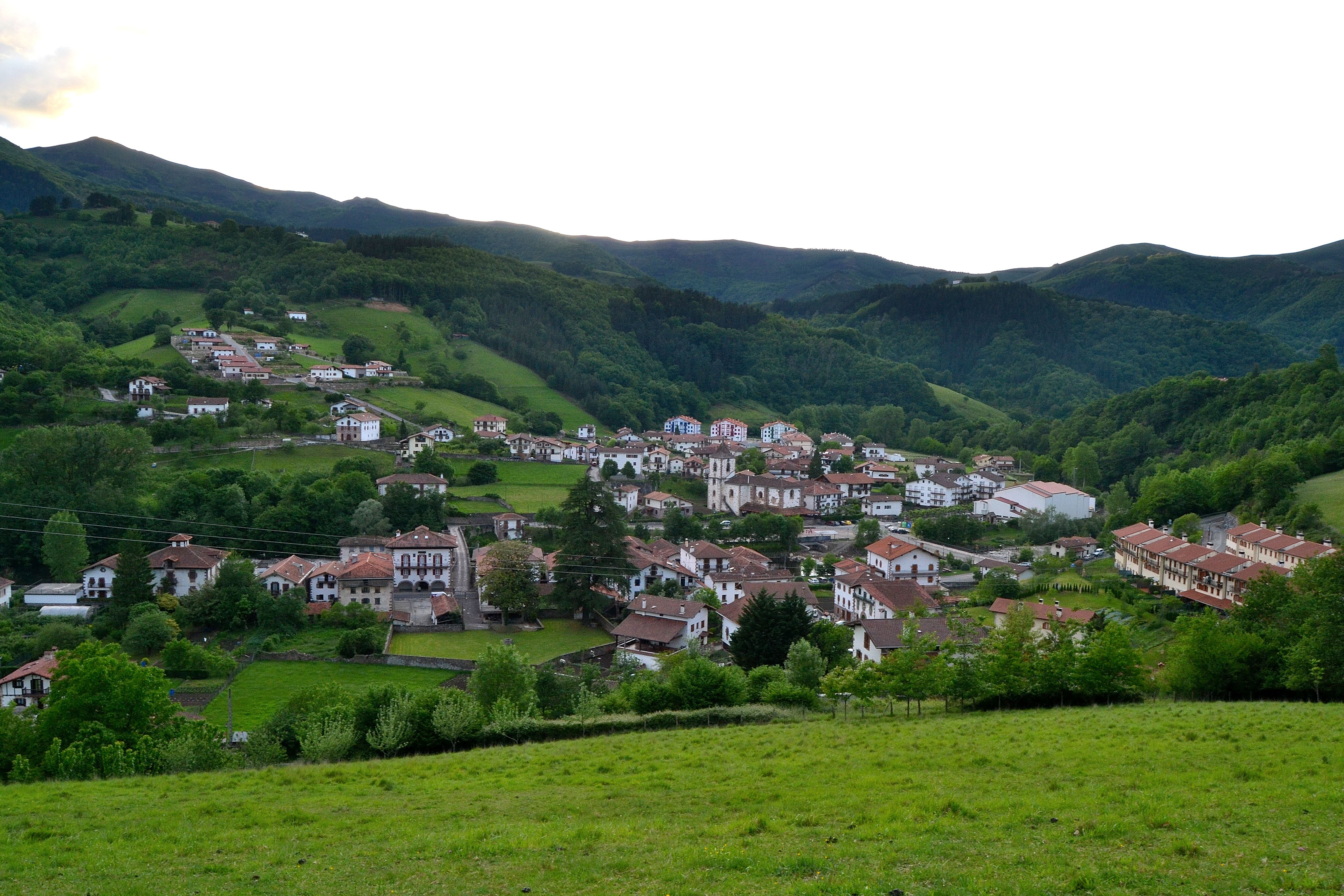 Sunbilla. Malerreka, Navarre. Basque Country.